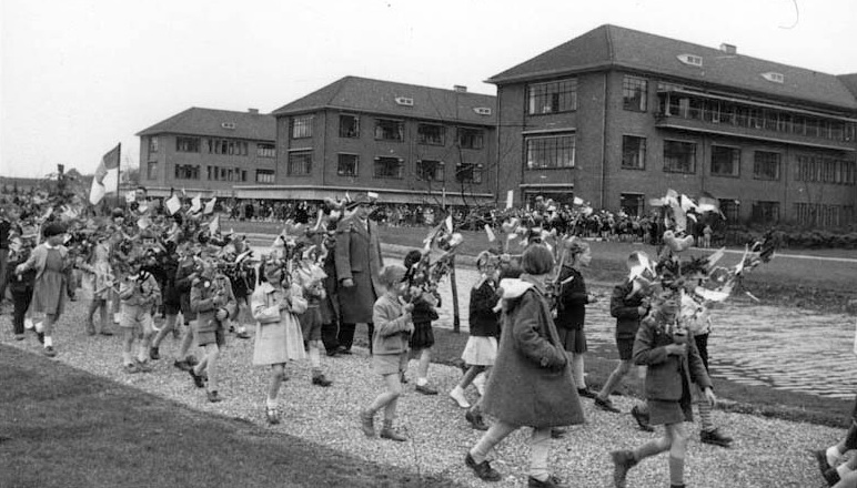 A Palm Sunday children's procession in Maastricht, Netherlands, in 1956. In the background the Sint-Annadal hospital.